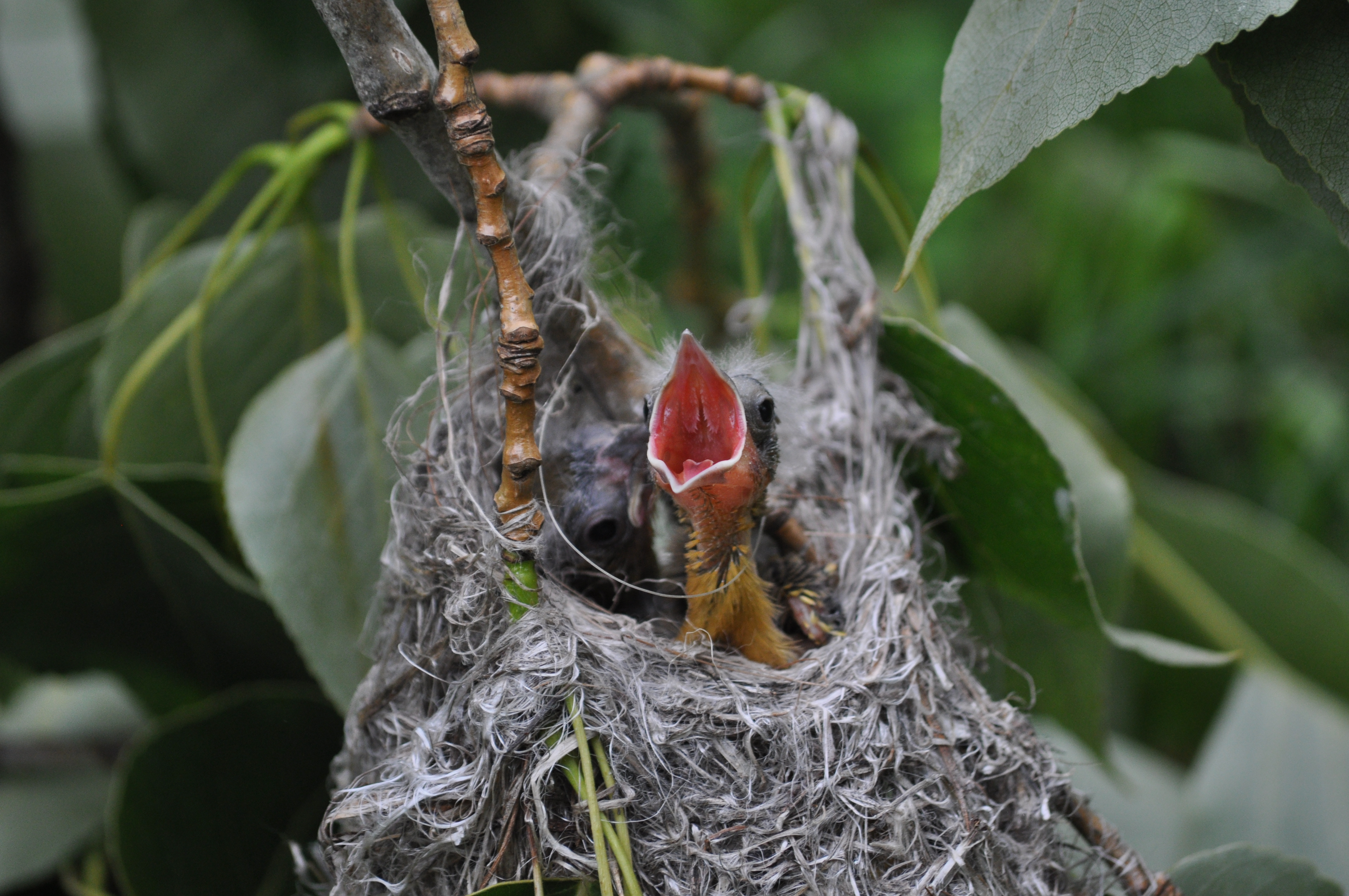 Baltimore Oriole (Icterus galbula) chicks in their nest, situated in the branches of a recently fallen tree in Dutchess County, New York, USA.